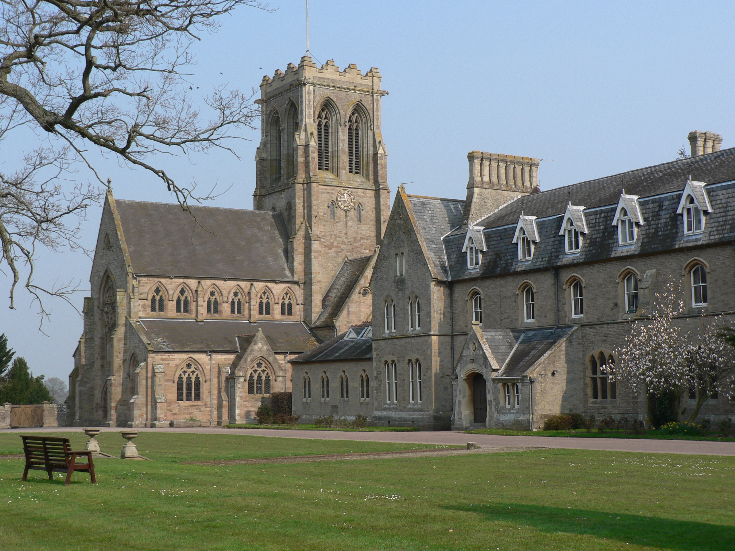 Belmont Abbey, Herefordshire, with the abbey church of St Michael and All Angels on the left